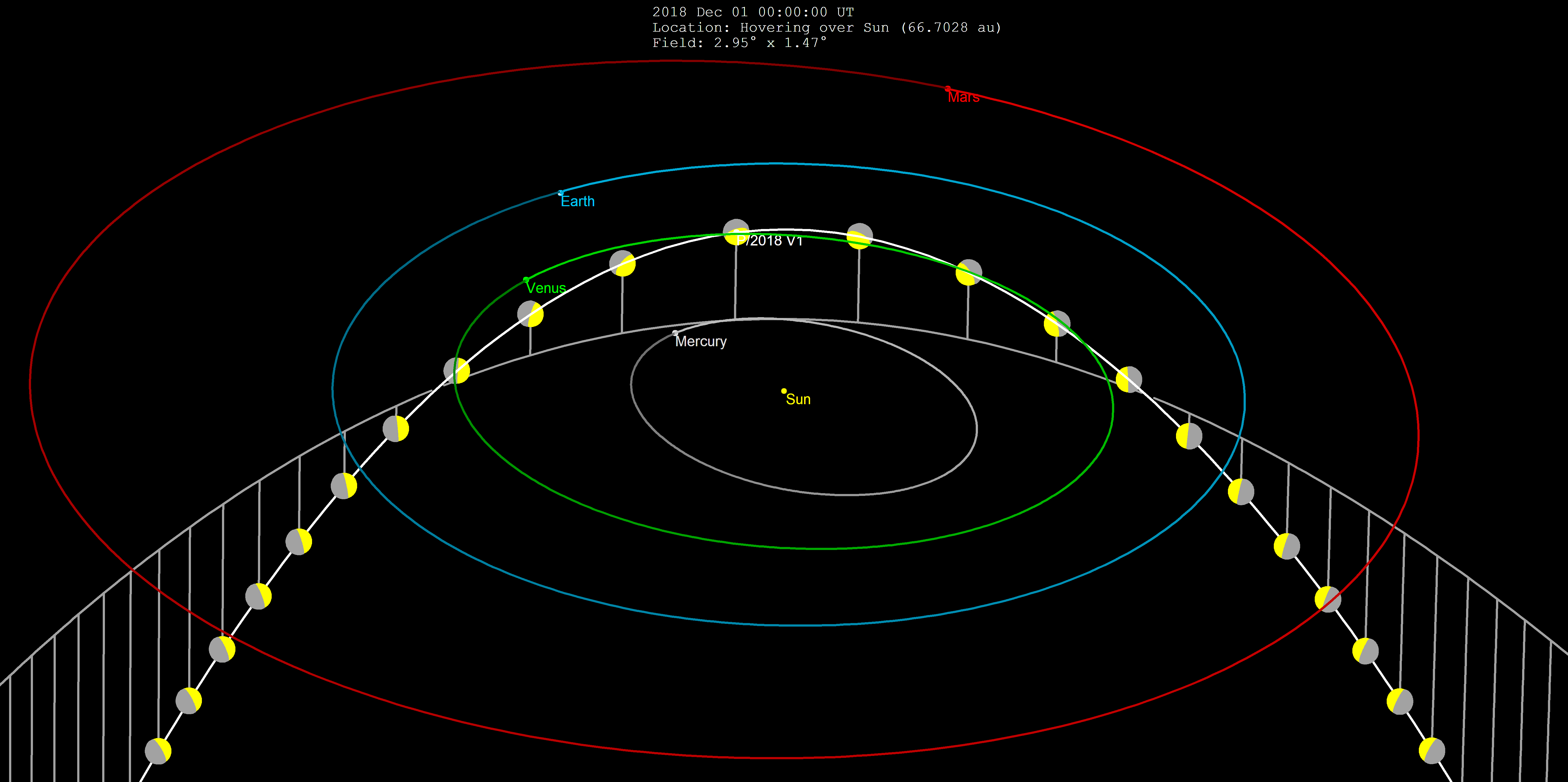 Comet C/2018 V1 perihelion orbital motion showing 7-day motion markers